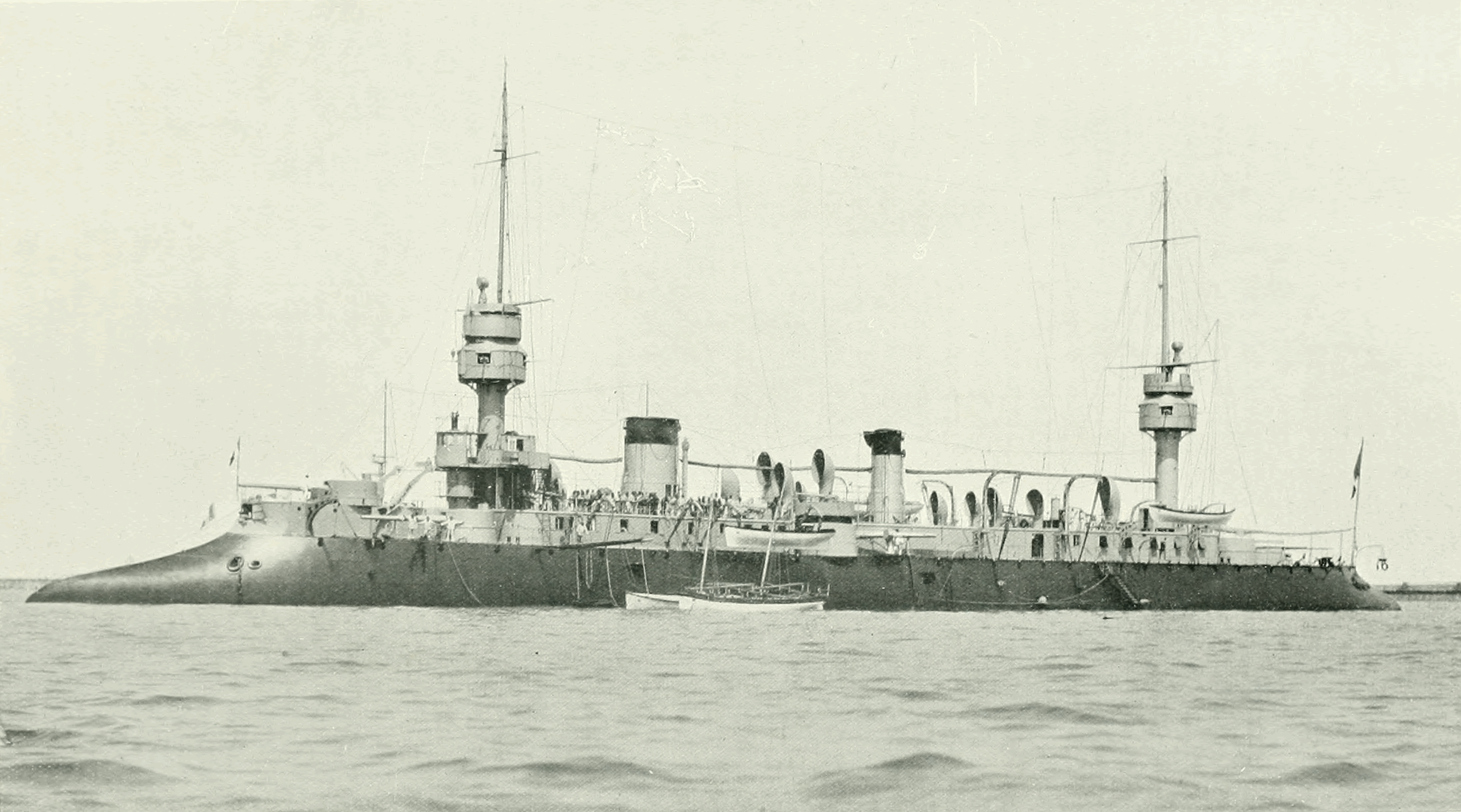 Photo of the French cruiser Dupuy de Lôme. From Page's Magazine No. 3, September 1902, page 258, stored at .